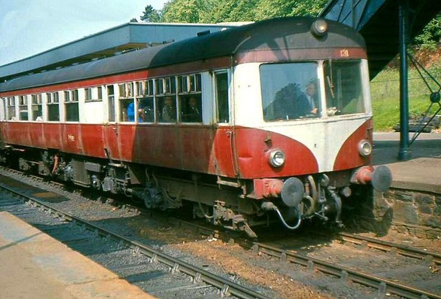 NIR former GNR BUT railcar 131 at Lisburn, Co. Antrim, Northern Ireland. The train is the 10.15 hrs service from Portadown to Belfast Great Victoria Street. The saloon behind the driver's cab was originally first class. It allowed passengers a view forward unless the driver chose to pull the night blind down.